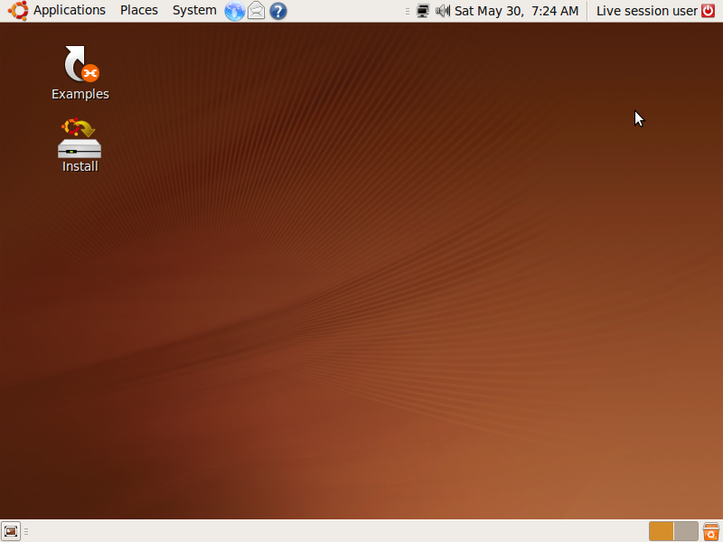 Screenshot of Ubuntu 9.04 Jaunty Jackalope (live session). Packages firefox and firefox-3.0-branding were replaced by abrowser and abrowser-3.0-branding (de-branded Firefox) in order to take a free screenshot.